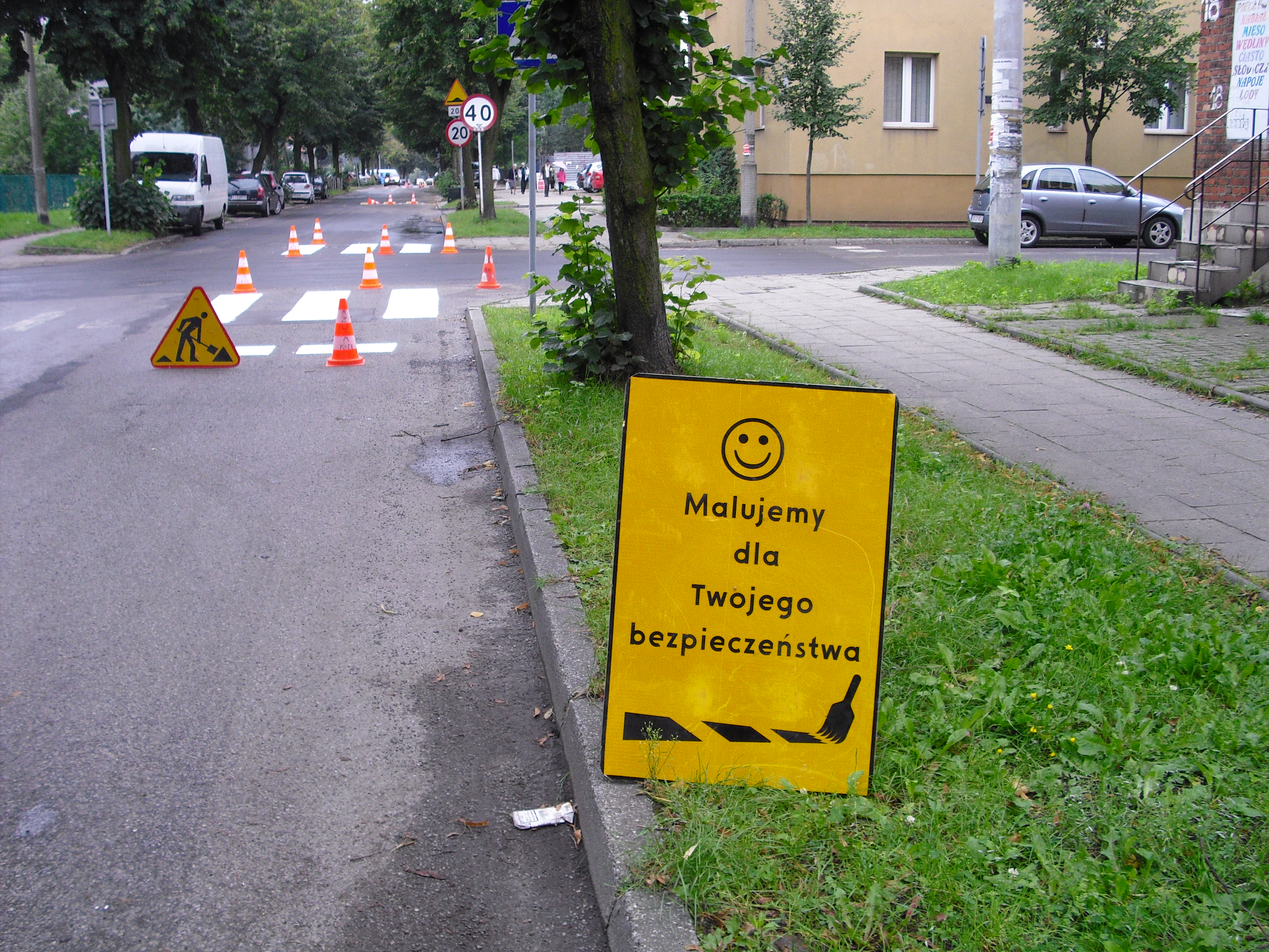 "Malujemy dla Twojego bezpieczeństwa", which means: "We are painting for yours safety", with a smiley emoticon, on a street in Katowice, Poland